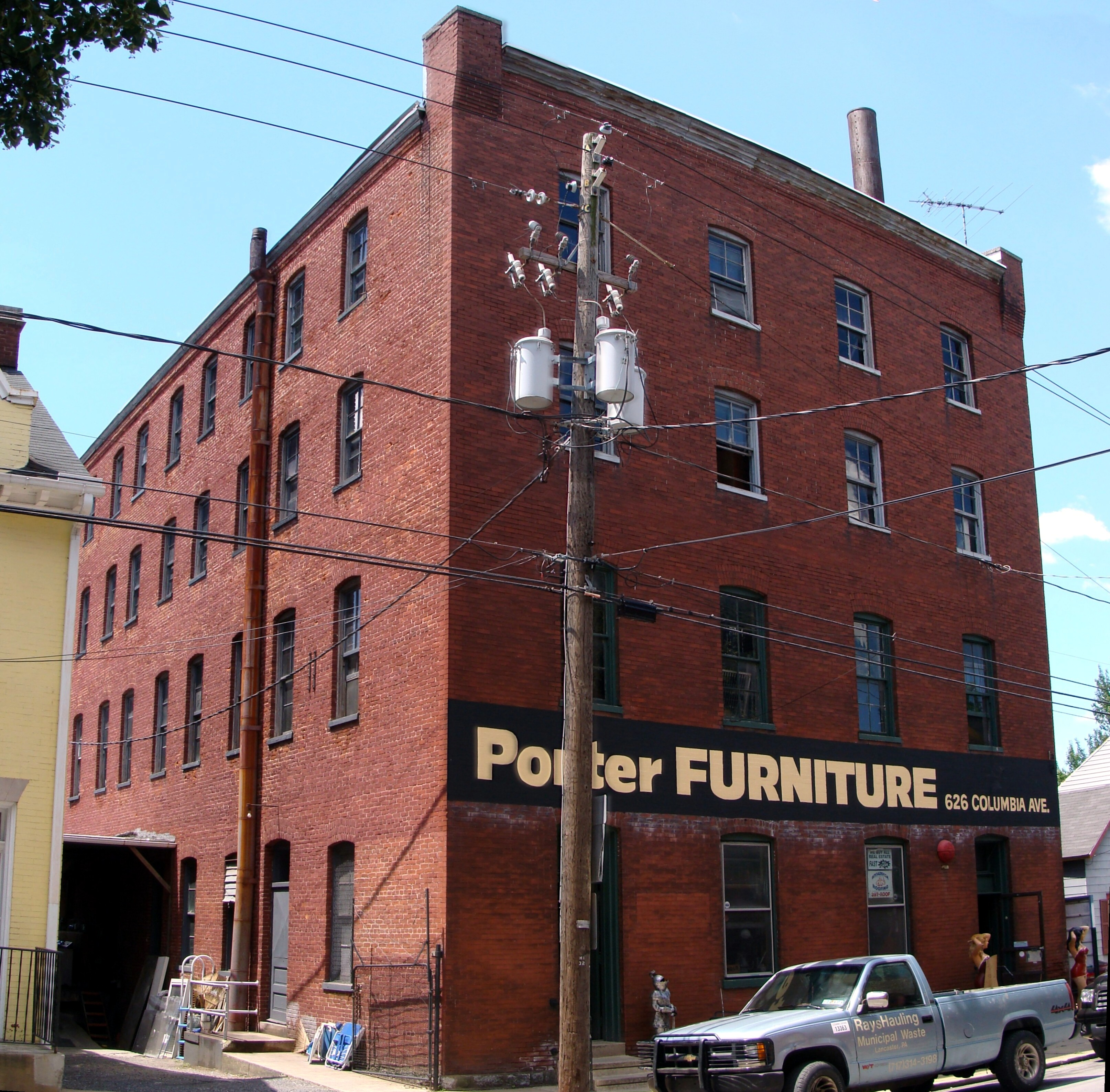 The Slater Cigar Factory, located at 626 Columbia Avenue, in Lancaster, Pennsylvania. Listed on National Register of Historic Places on September 21, 1990. Originally two vertical photos. This panoramic image was created with Autostitch. Stitched images may differ from reality.